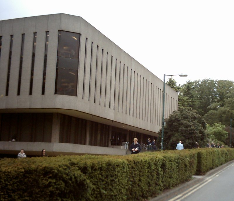 Photo of Hallward Library at the University of Nottingham taken by me 20/05/2004.